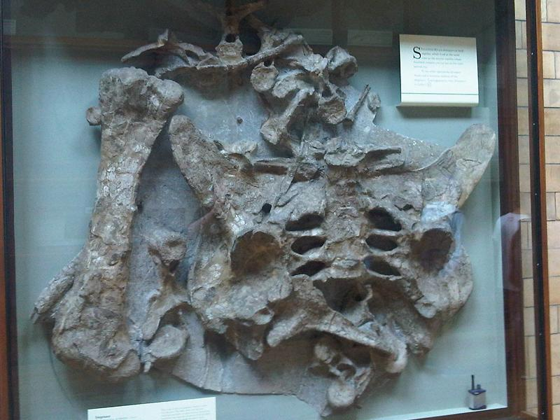 Dacentrurus armatus reconstruction at the Natural History Museum in London, UK.